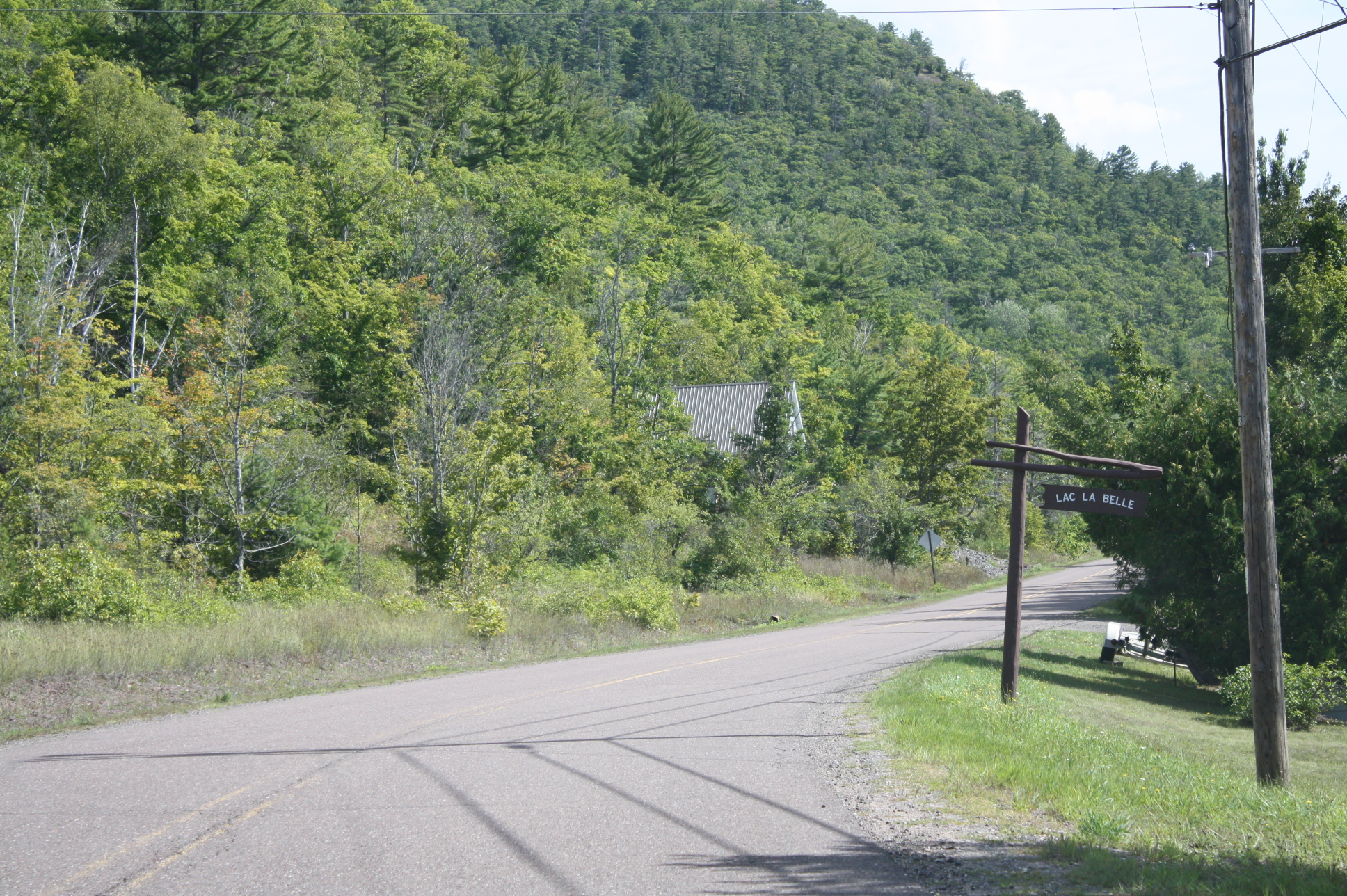 Looking at the sign for Lac La Belle, Michigan.